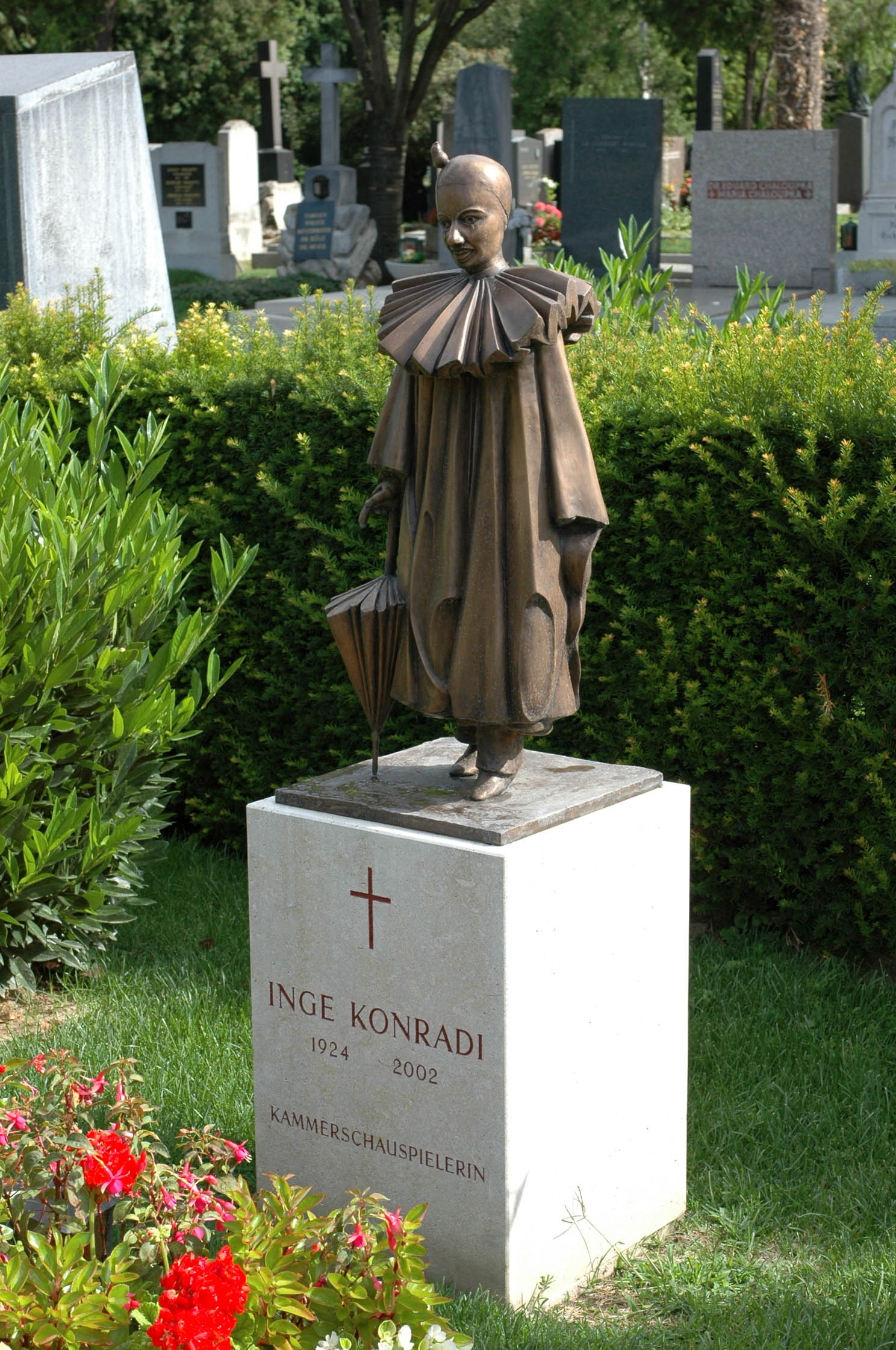 Castle theatre actress – born on the 27.07.1924 in Vienna - died at the 04.02.2002 in Vienna. Grave on the Zentralfriedhof - group 33 G / number 31